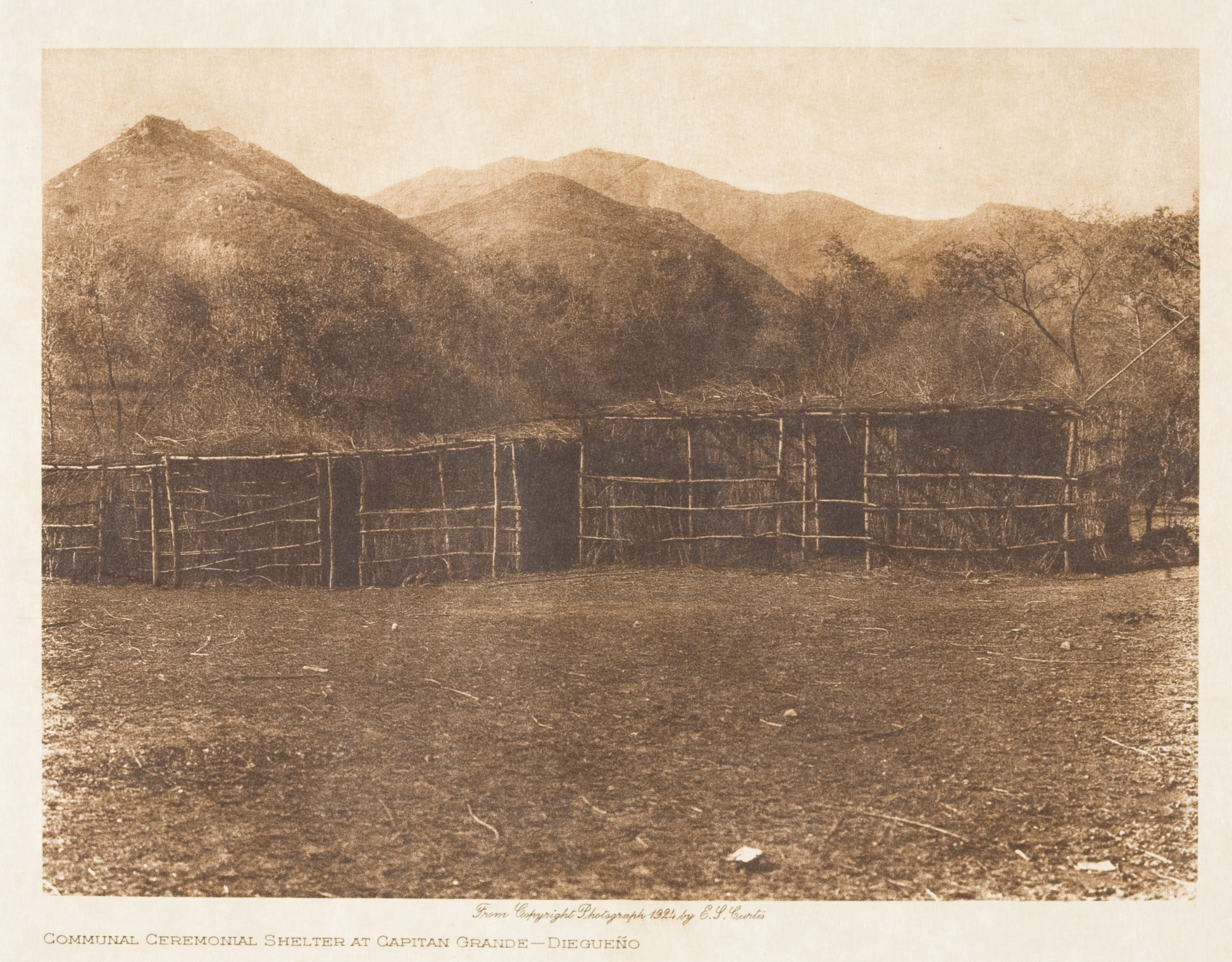 Kumeyaay people − Diegueno — of present day San Diego County, California. United States, 1924 Photographs Photogravure on paper Gift of Mark and Pam Story (AC1997.271.57) Photography